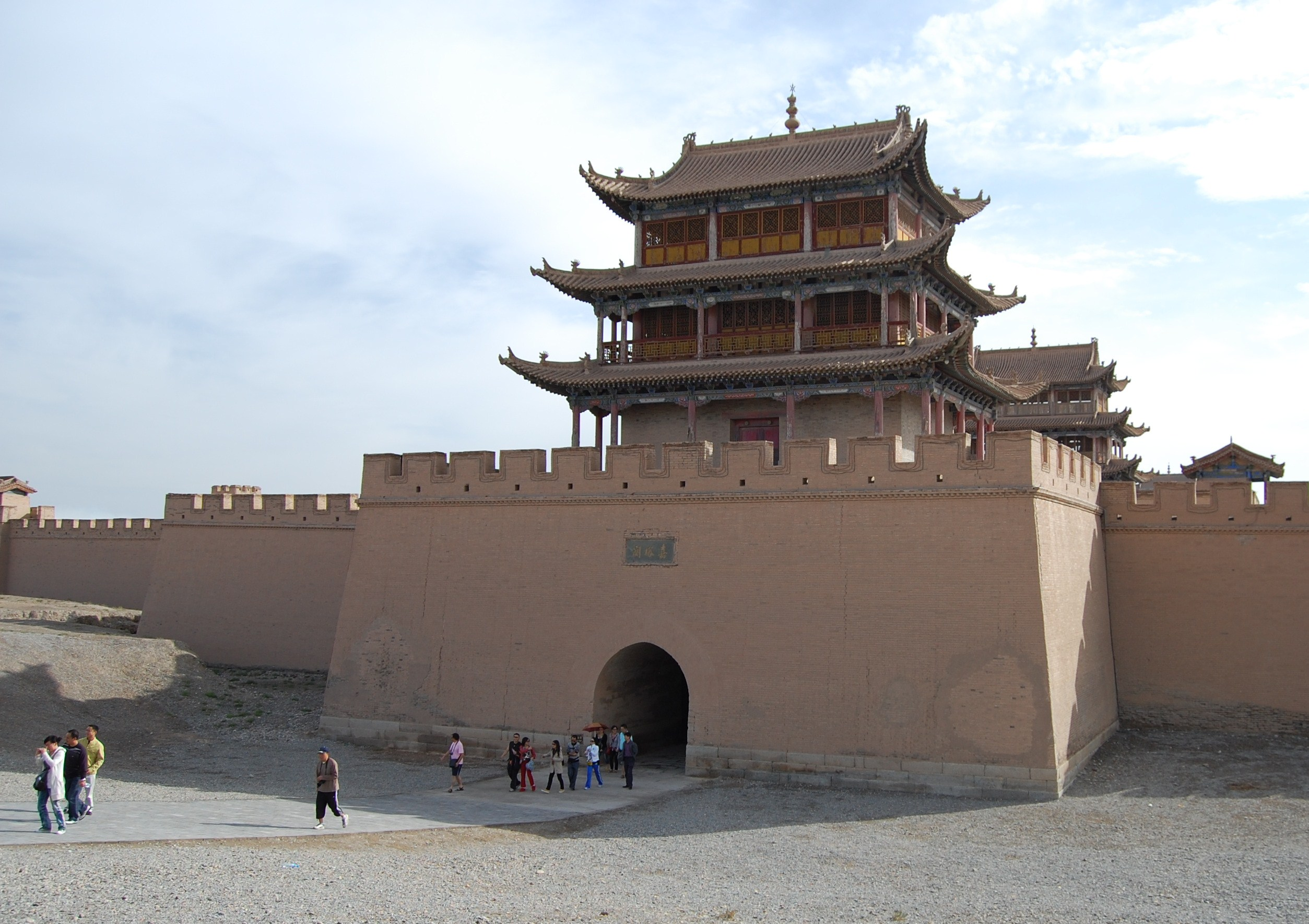 Fortress (14th century) at Great Wall of Jiayuguang